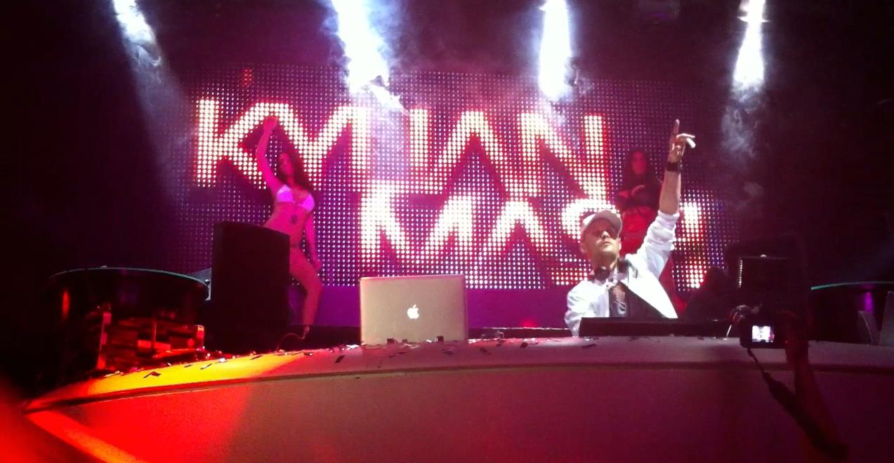 Dj Kylian Mash at Club